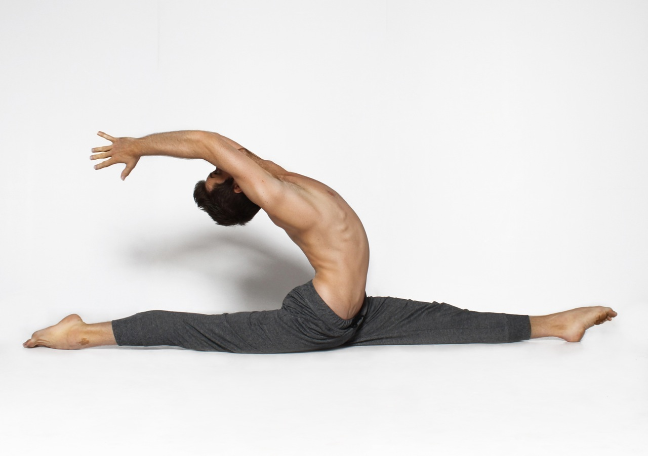 Drew Osborne Yoga